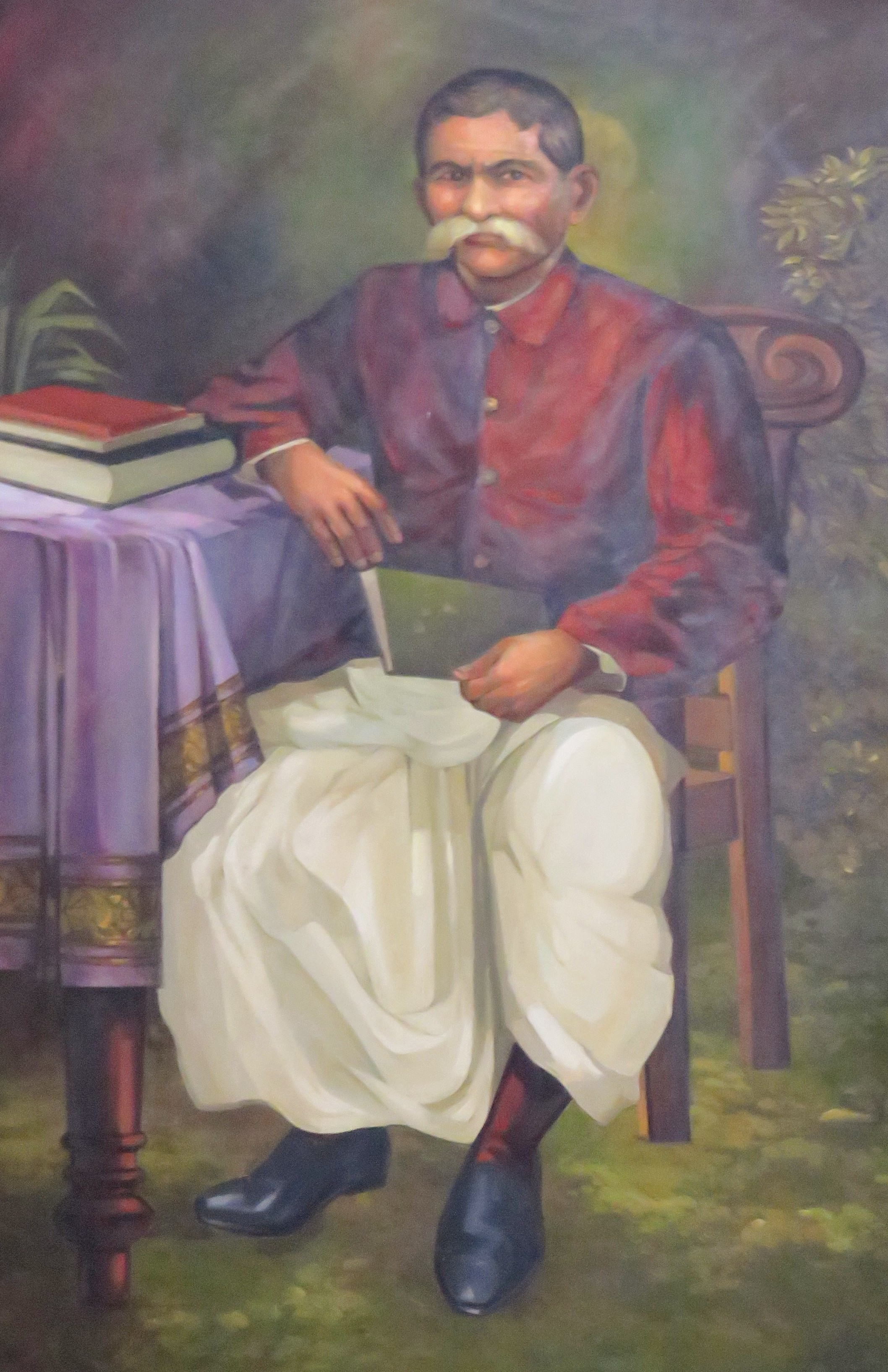 Painting of Gangadhar Meher at Odisha State Museum, Bhubaneswar